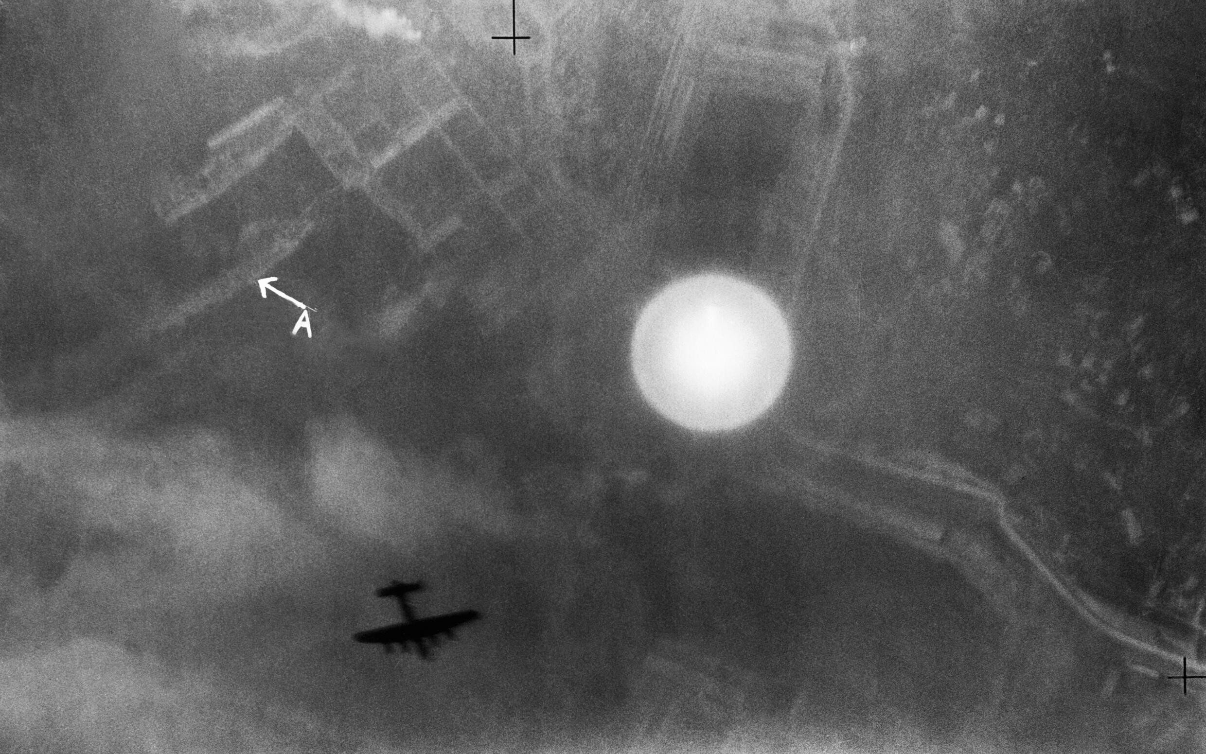 An Avro Lancaster silhouetted over the Italian port of La Spezia on the night of 13/14 April 1943. Annotated section of a vertical aerial photograph taken during a night raid on the docks at La Spezia, Italy. An Avro Lancaster is silhouetted over the target area as a photoflash bomb (centre right) illuminates the docks below, revealing a 'Littorio' class battleship lying in harbour ('A').